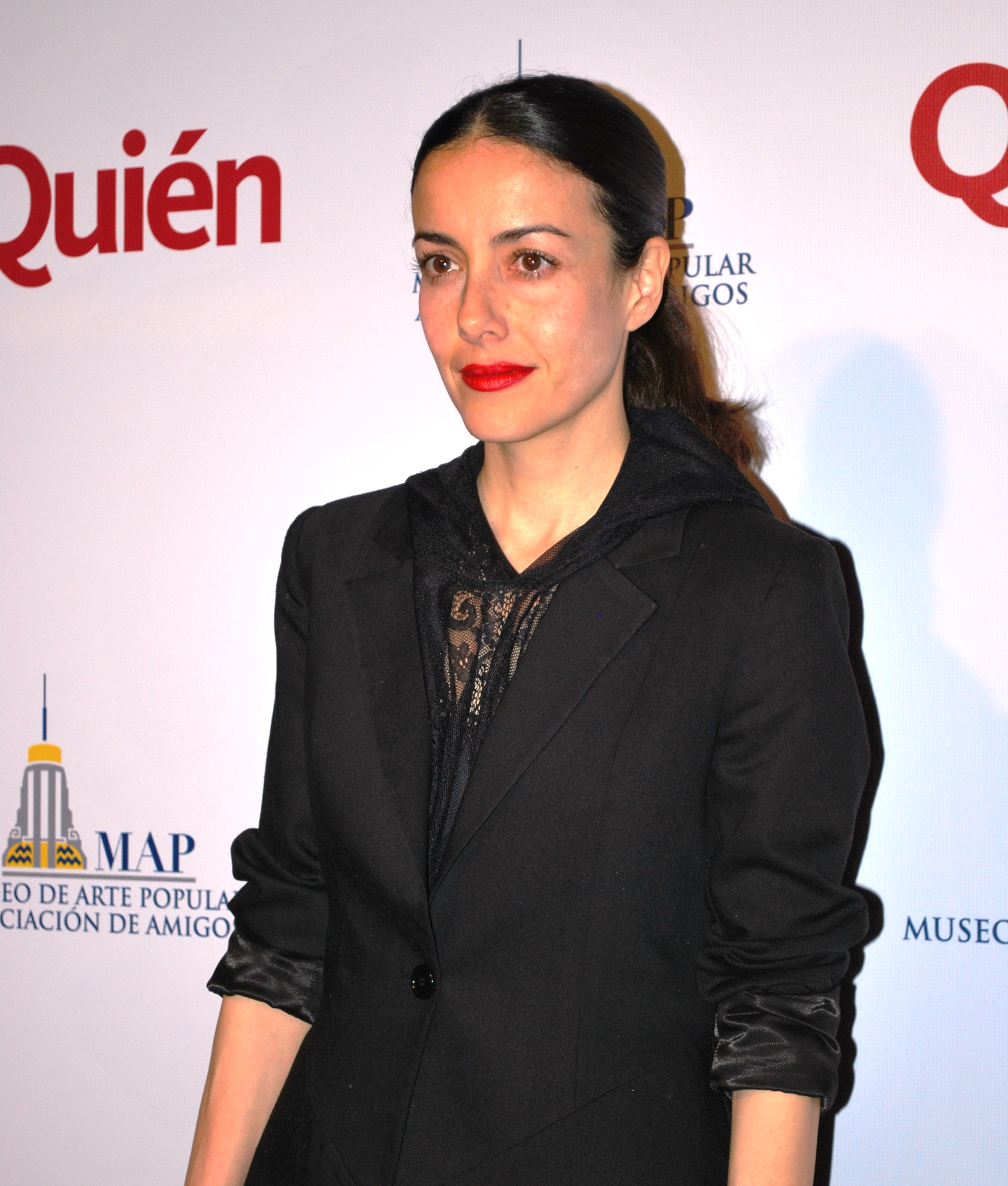 Cecilia Suarez at the 6th anniversary celebration of the Museo de Arte Popular in Mexico City